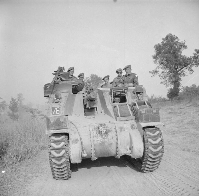 The British Army in Italy 1944 A Priest 105mm self-propelled gun of 12th Royal Horse Artillery (Honourable Artillery Company), 6th Armoured Division, 17 May 1944.